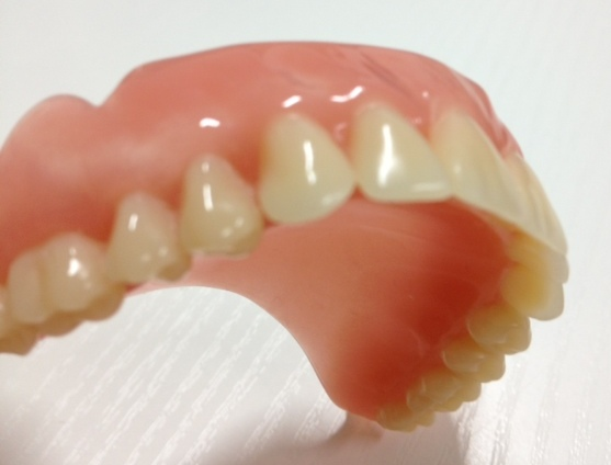 Full denture upper jaw